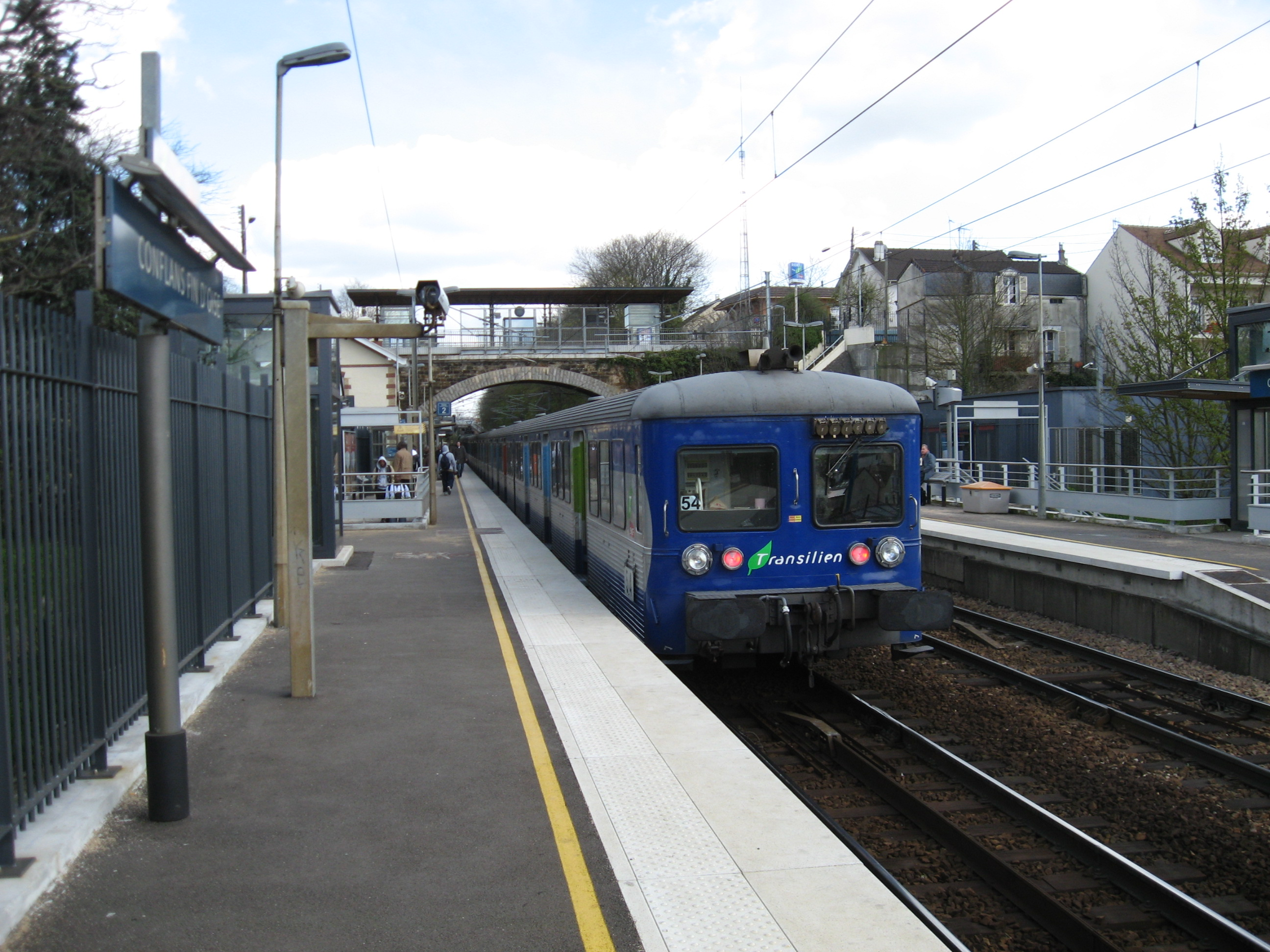 Train on the Mantes line in Transilien colours